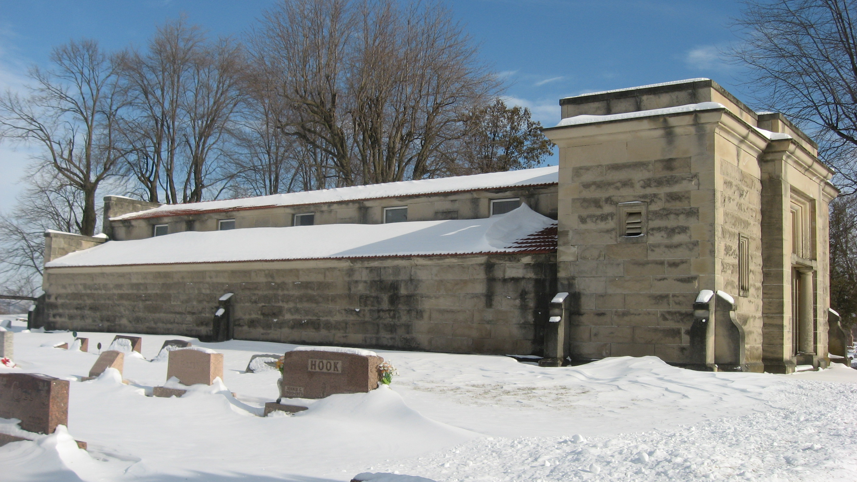 Front of the Butler Community Mausoleum, located off the northern side of County Road 28 east of Butler in Stafford Township, DeKalb County, Indiana, United States. Built in 1914, it is listed on the National Register of Historic Places.